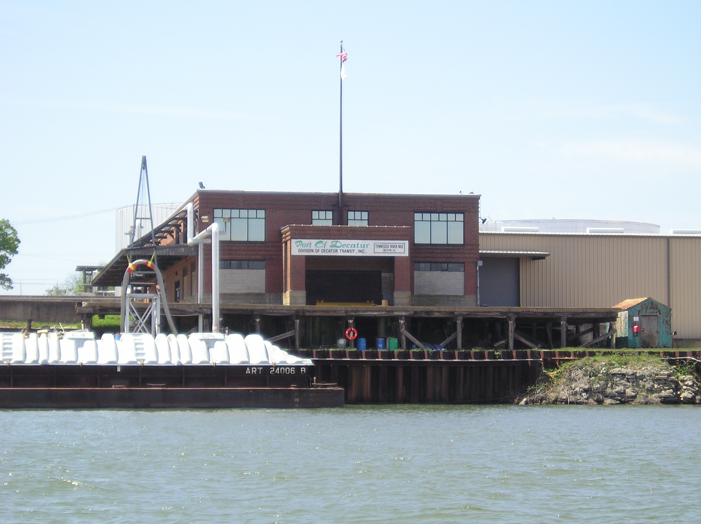 Picture of the main river entrance to the Port of Decatur.